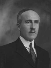 Süleyman Necmi Bey (Selmen)